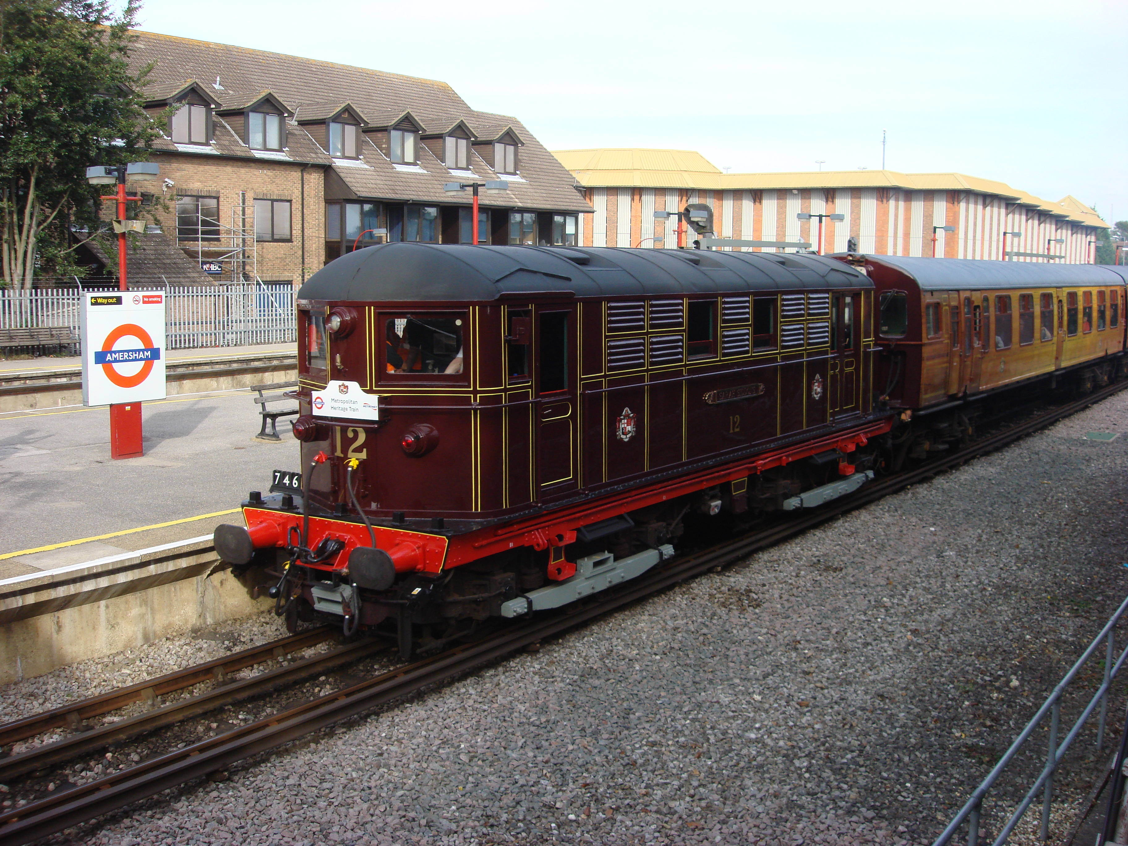 Metropolitan Railway locomotive number 12 "Sarah Siddons" constructed by Metropolitan Vickers in 1921. Preserved in working order and seen here at Amersham station.